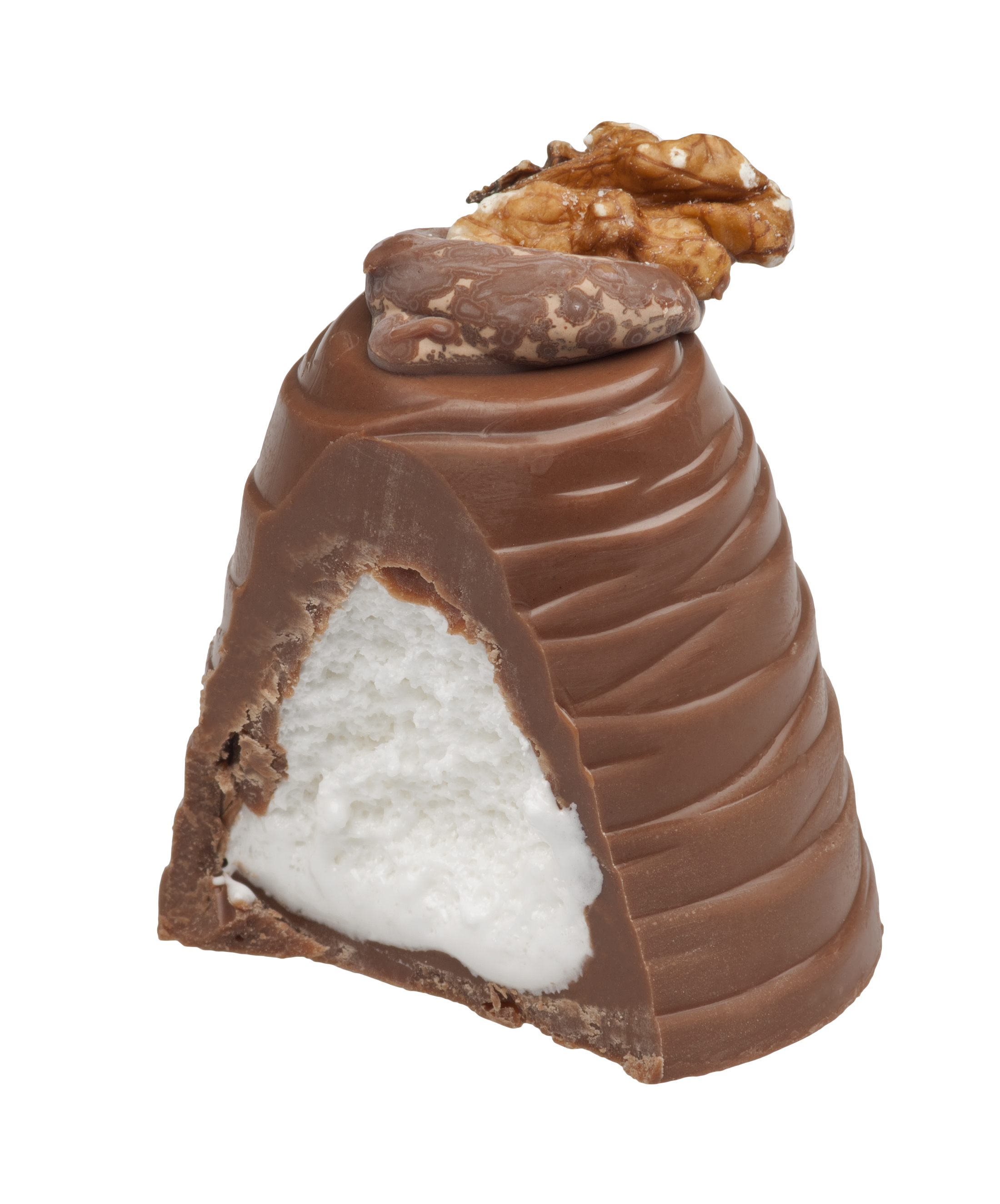 A Nestle Walnut Whip that has been split, showing the marshmallow insides.